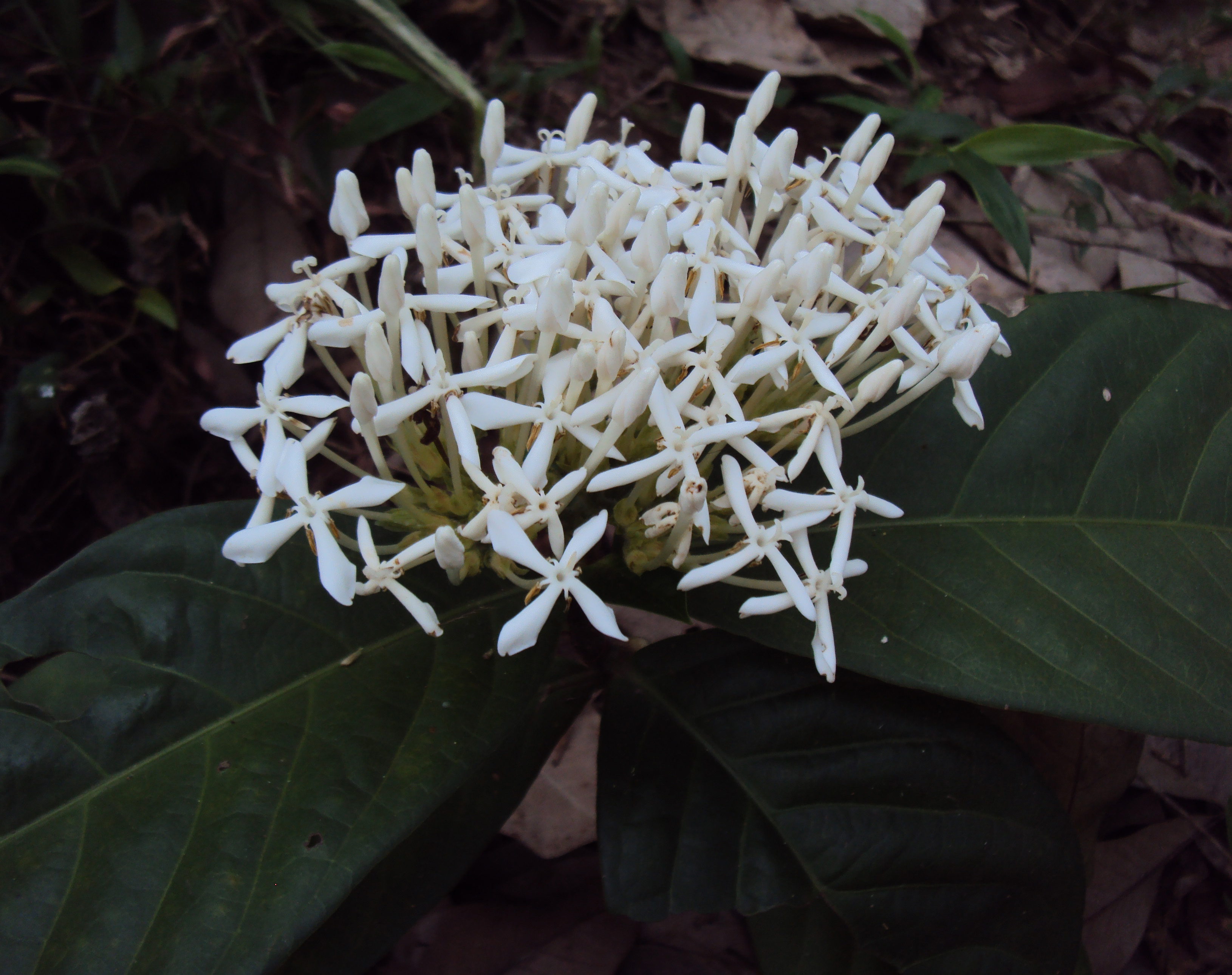 Ixora polyantha